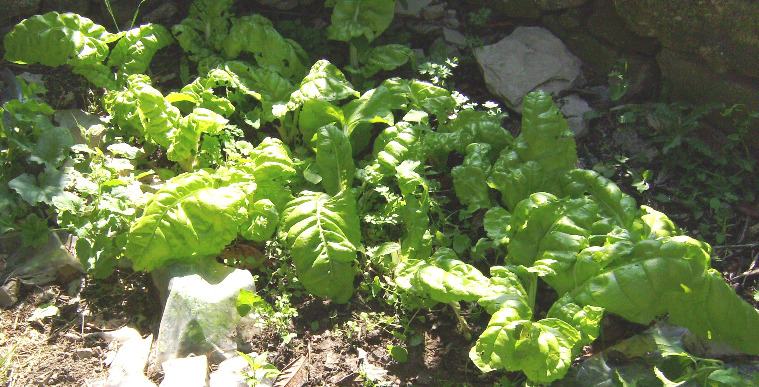 Swiss chard (Beta vulgaris subsp maritima) on the field, Castelltallat, Catalonia